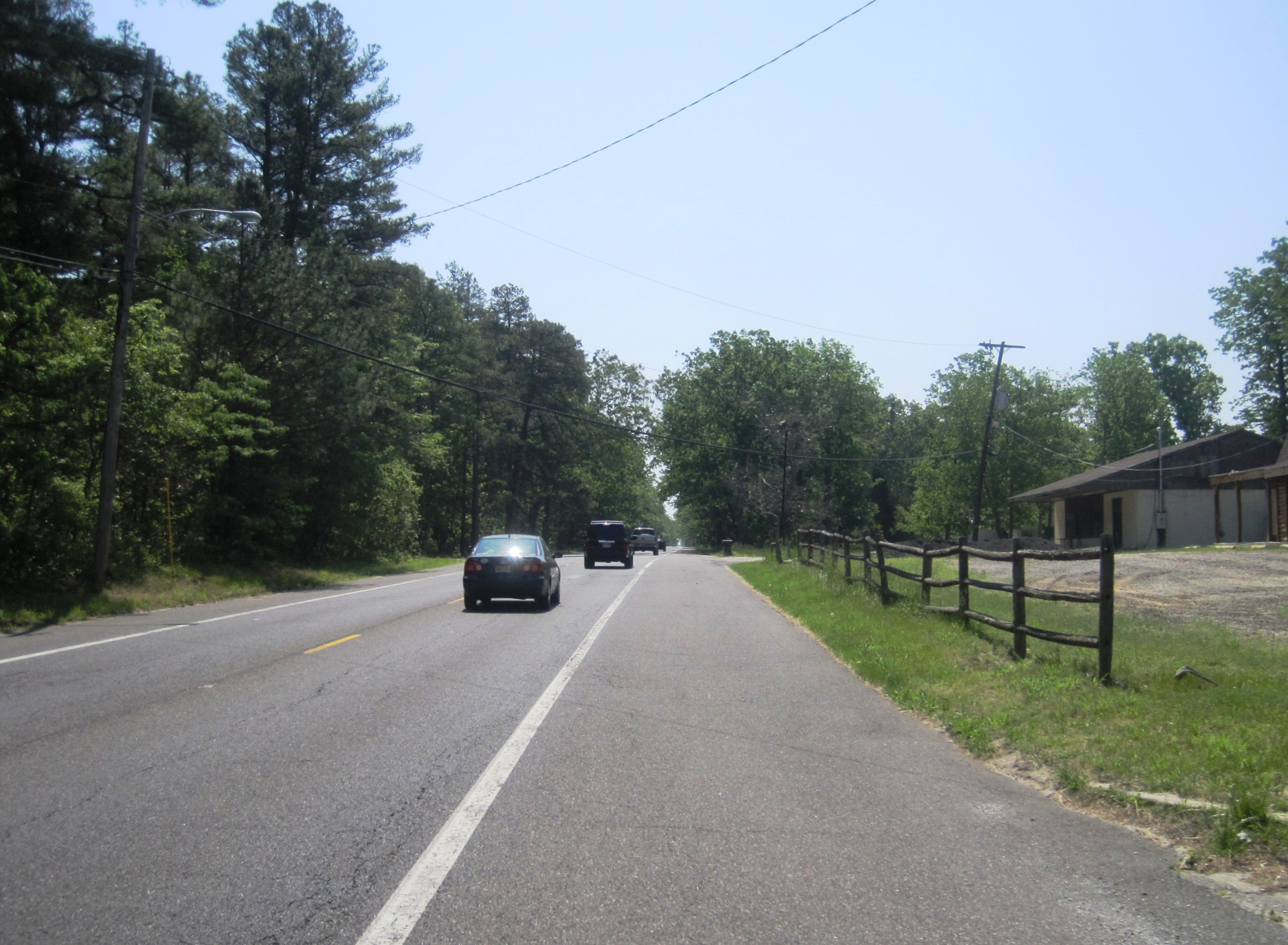 Photograph showing the ghost town of Ongs Hat, New Jersey located along the border of Southampton Township (right) and Pemberton Township (left) in Burlington County. Photo taken along southbound Magnolia Road (County Route 644).